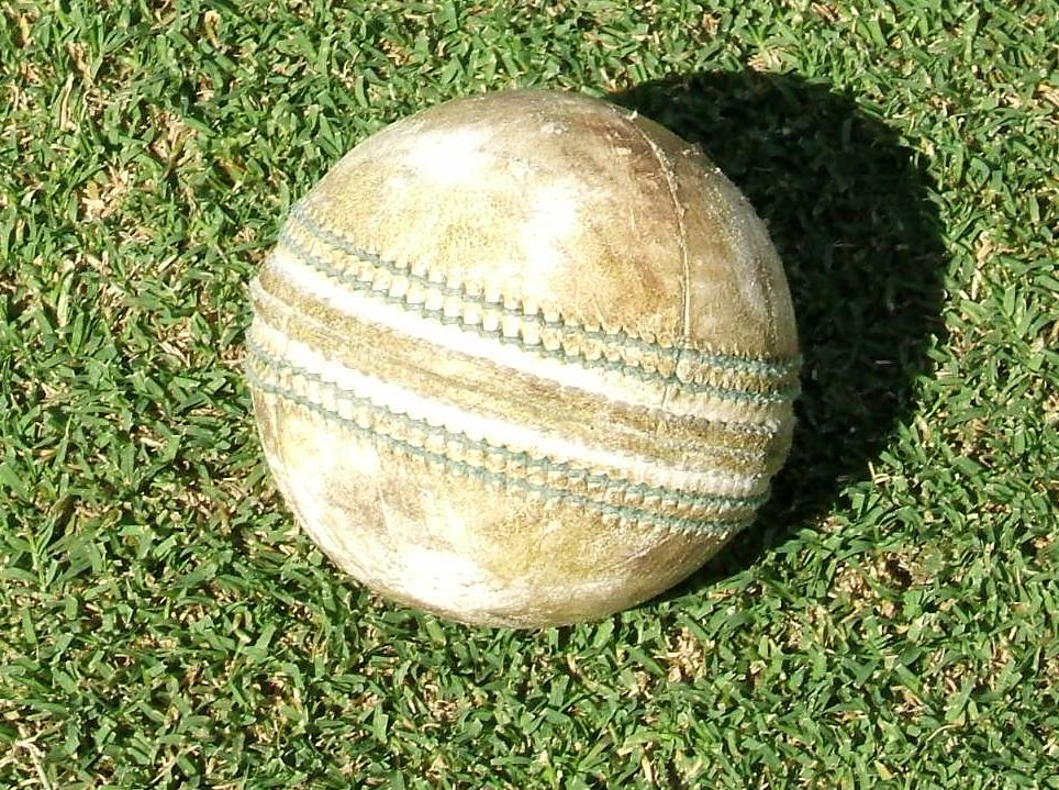 White cricket ball at a training session at the Adelaide Oval